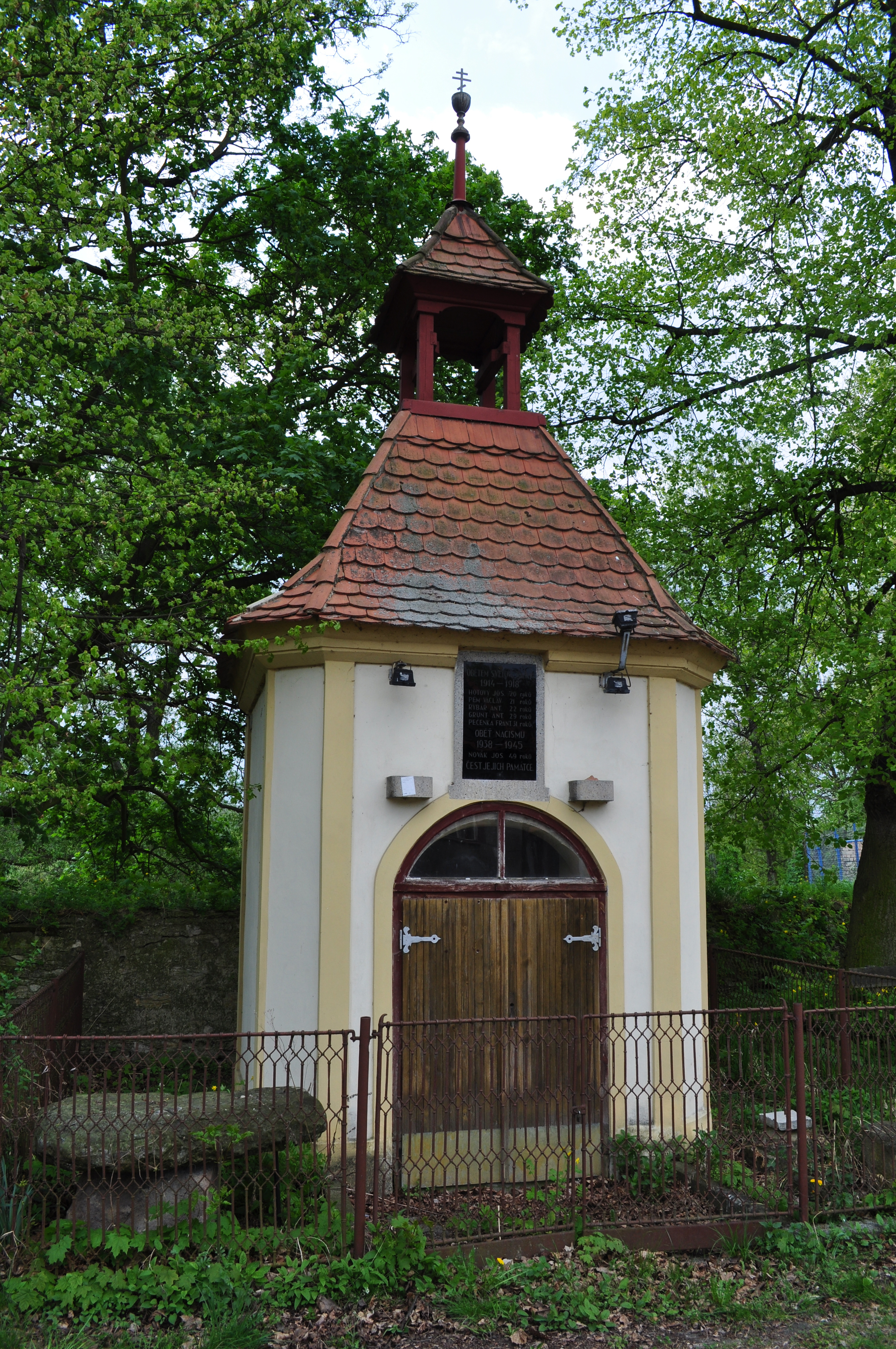 Kystra - late barock chapel